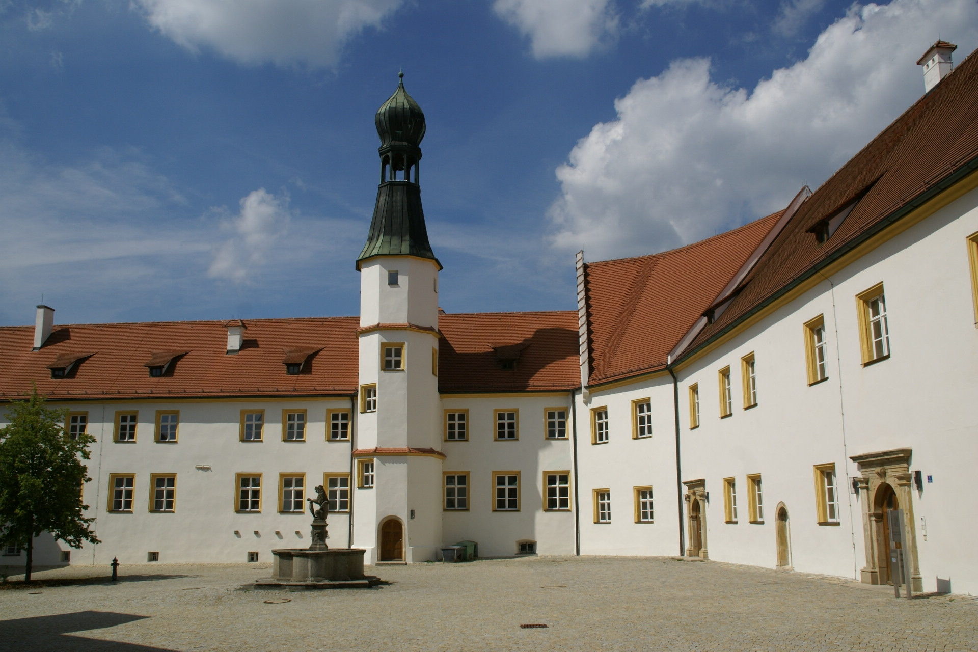 Inner yard of the castle at Sulzbach-Rosenberg (Germany)